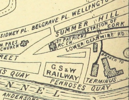 Image taken from: Title: "Guide to the most picturesque tour in Western Europe. Embracing the ... Lakes ... of Killarney, Glengarriff, ... Blarney, etc" Author(s): British Library shelfmark: "Digital Store 10390.b.42" Page: 22 (scanned page number - not necessarily the actual page number in the publication) Place of publication: Cork Date of publication: 1888 Type of resource: Monograph Language(s): English Physical description: 59 pages (8°) Explore this item in the British Library’s catalogue: 001173561 (physical copy) and 014767681 (digitised copy) (numbers are British Library identifiers) Other links related to this image: - View this image as a scanned publication on the British Library’s online viewer (you can download the image, selected pages or the whole book) - View this digitised map overlaid on a modern map using the British Library’s Georeferencer service - Order a higher quality scanned version of this image from the British Library Other links related to this publication: - View all the illustrations found in this publication - View all the illustrations in publications from the same year (1888) - Download the Optical Character Recognised (OCR) derived text for this publication as JavaScript Object Notation (JSON) - Explore and experiment with the British Library’s digital collections The British Library community is able to flourish online thanks to freely available resources such as this. You can help support our mission to continue making our collection accessible to everyone, for research, inspiration and enjoyment, by donating on the British Library supporter webpage here. Thank you for supporting the British Library.